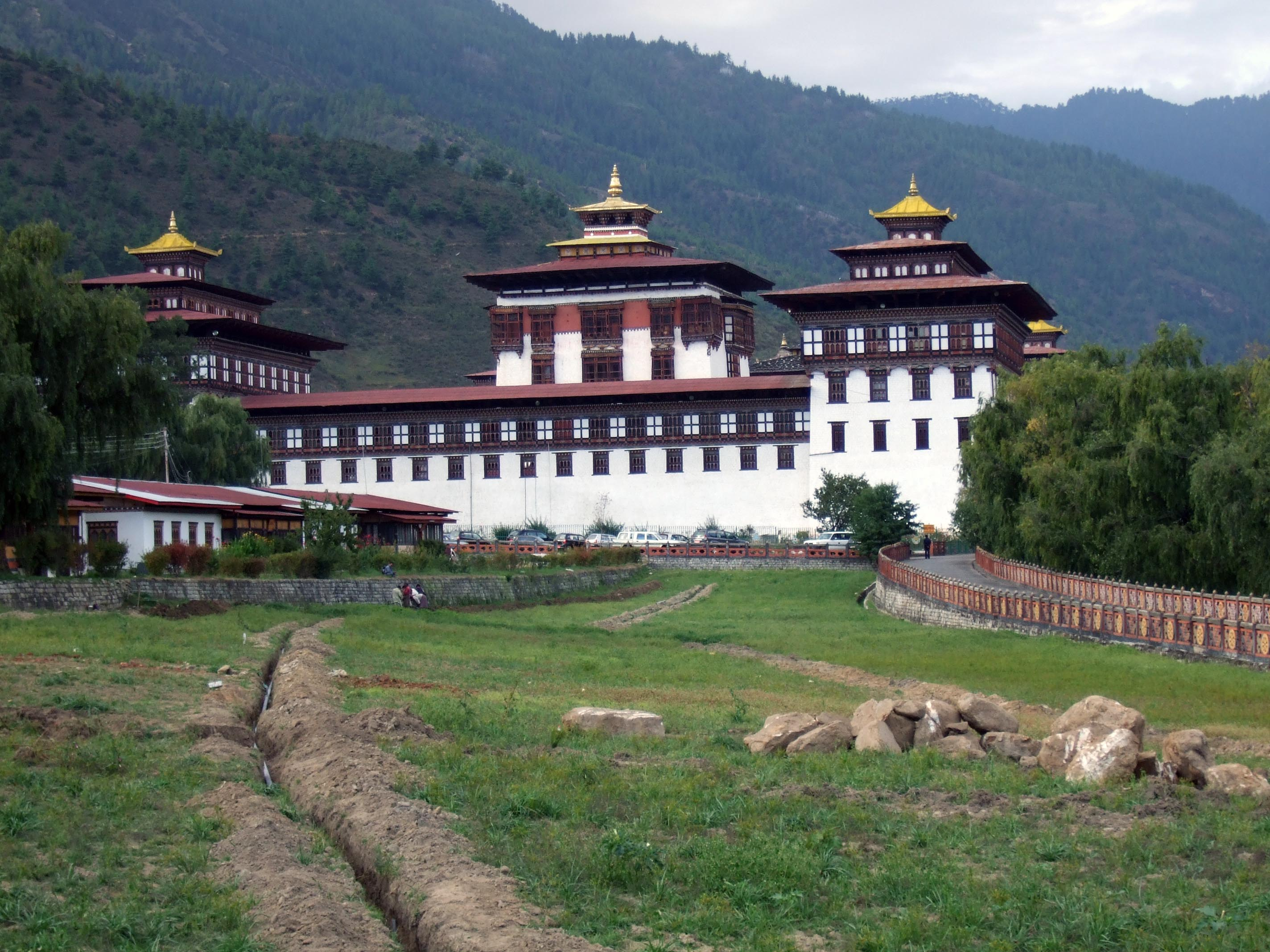 Trashi Chhoe Dzong from outside (Tashichödzong)